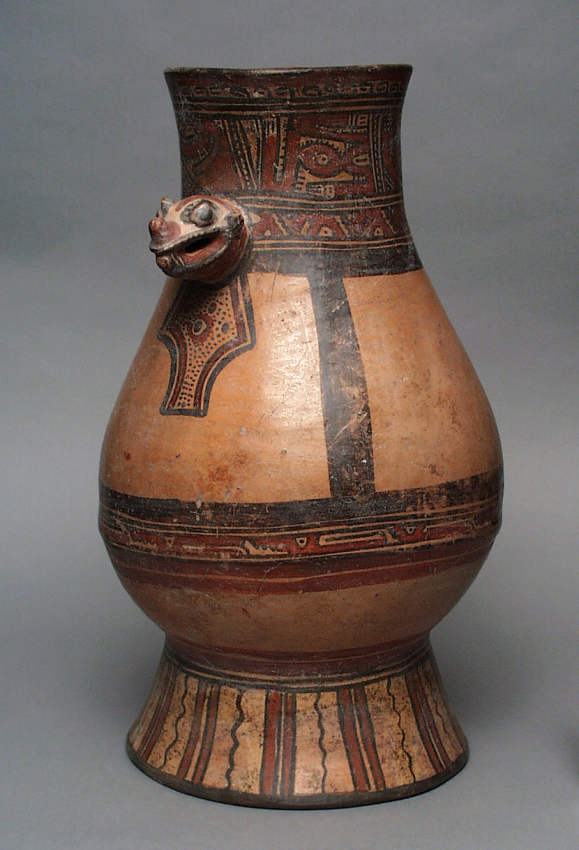 Costa Rica, Guanacaste-Nicoya, A.D. 1000-1500 Furnishings; Serviceware Ceramic, hand built, slip covered and decorated, burnished and oxidize fired 17 1/2 x 10 in. (44.45 x 25.4 cm) Gift of Nasli M. Heeramaneck (M.73.48.8) Art of the Ancient Americas